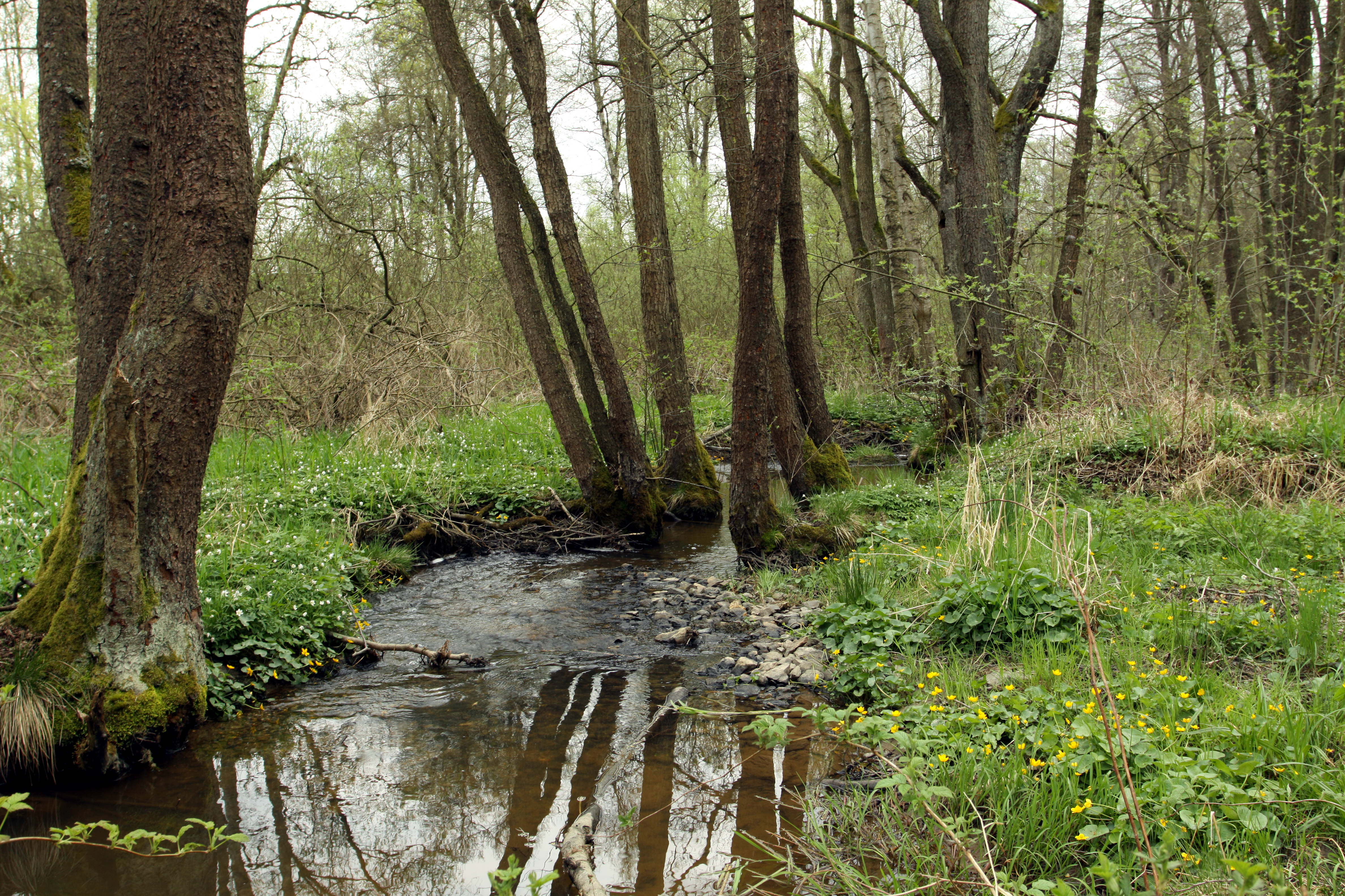 Nature reserve Bystřina in Cheb District, Czech Republic